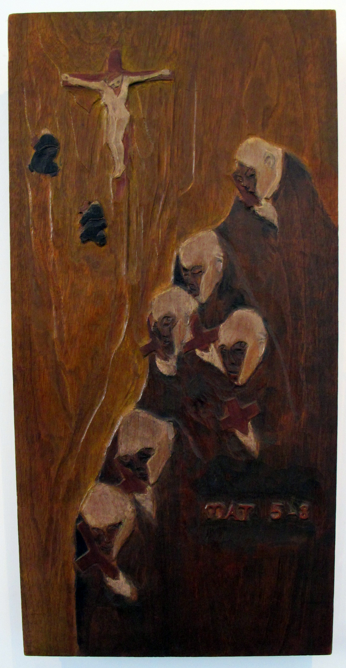 "Matthew 5:8 (Blessed are the pure in heart)", Paul Gauguin, oil on wood, ca. 1892